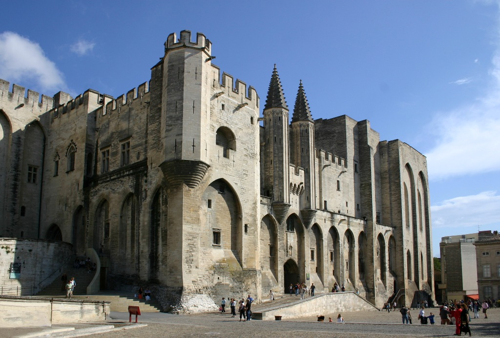 The pope palace, main facade, city of Avignon, France.